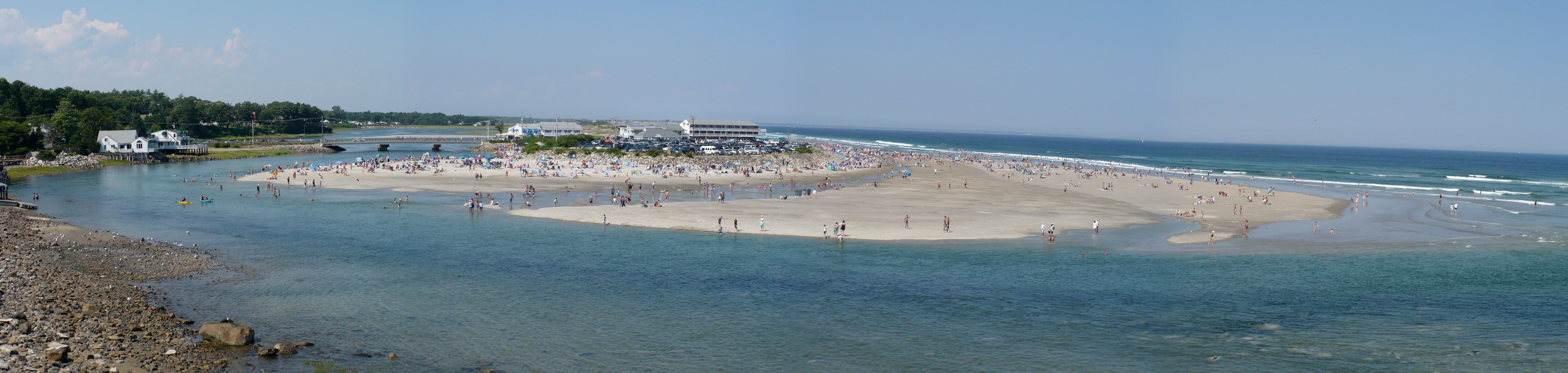 Photostitch of Ogunquit Beach, Maine, one of the world's most attractive beaches.